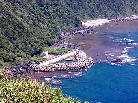 The seawater intake/outlet of the Okinawa Yanbaru Seawater Pumped Storage Power Station faces the Philippine Sea. The power station is located in Kunigami, Okinawa, Japan and it is operated by the Electric Power Development Co., Ltd.